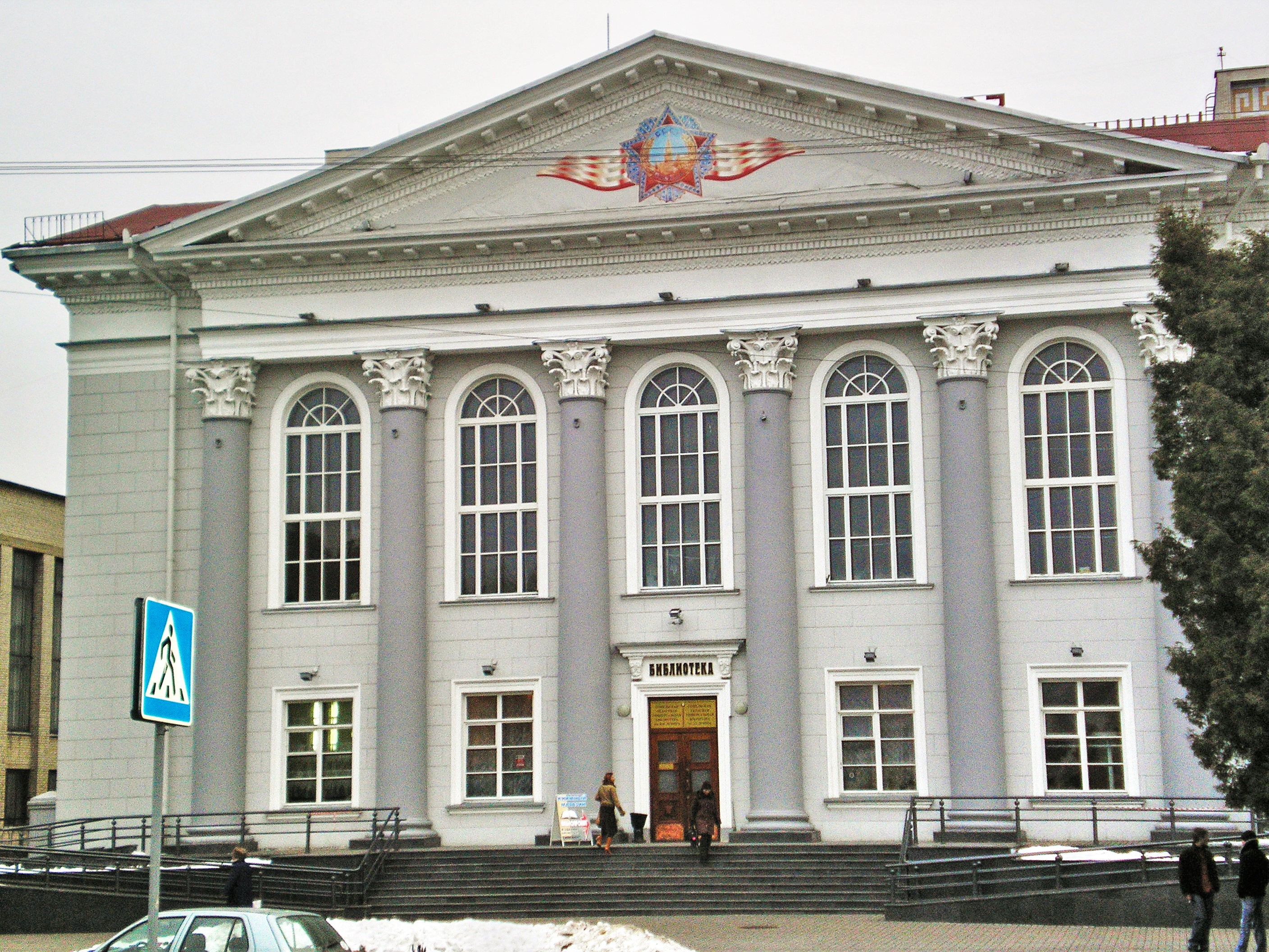 Gomel Central Library. Built in 1961, architect V. Burlak.